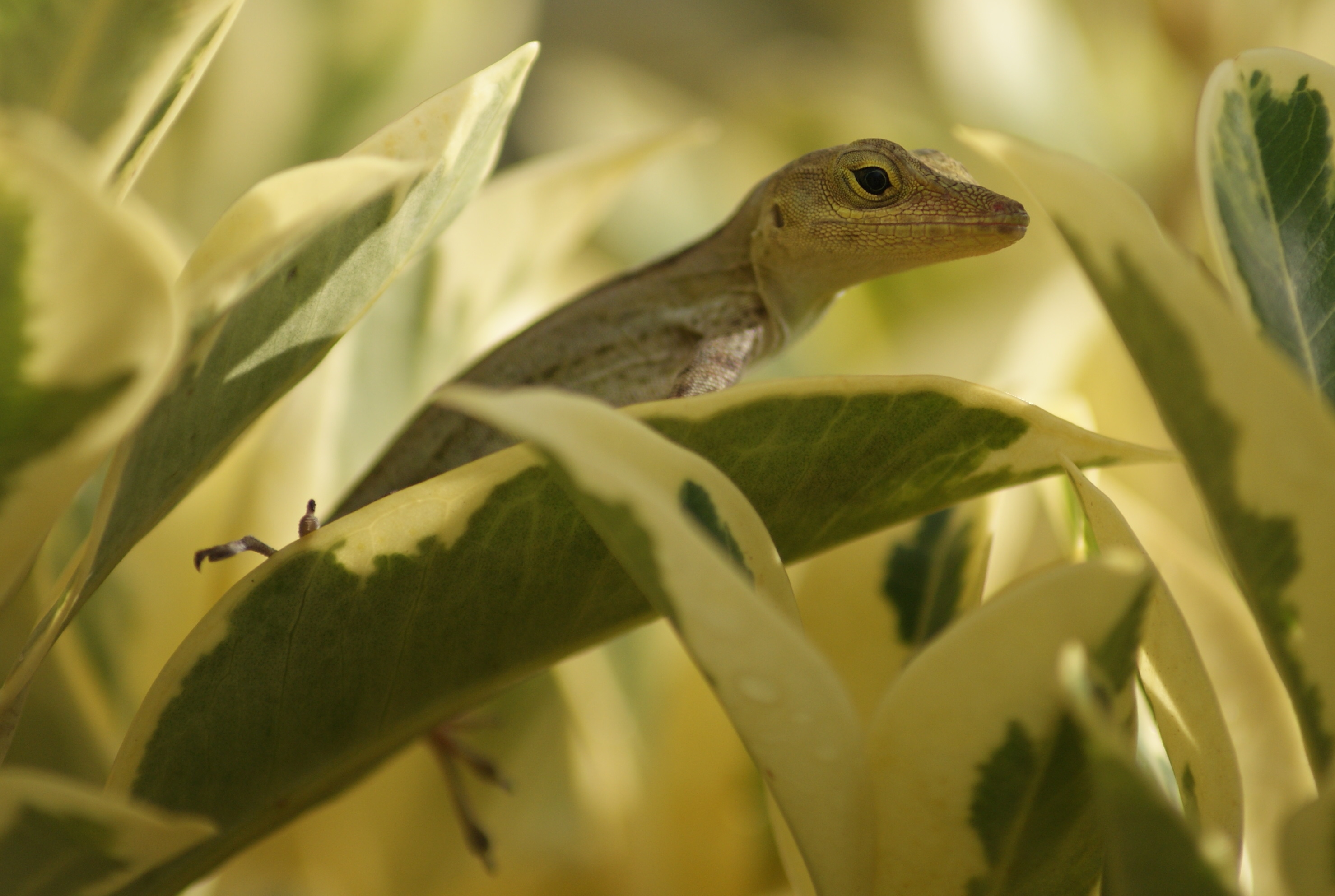 Leopard anole (Anolis marmoratus) in cultivar bush of unknown species in the village of Lamarre near Sainte-Anne (Guadeloupe).